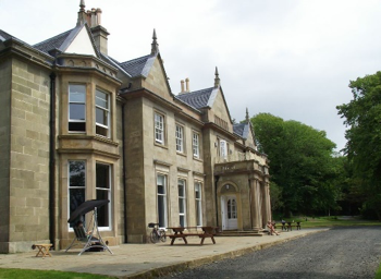 A view of Raasay House